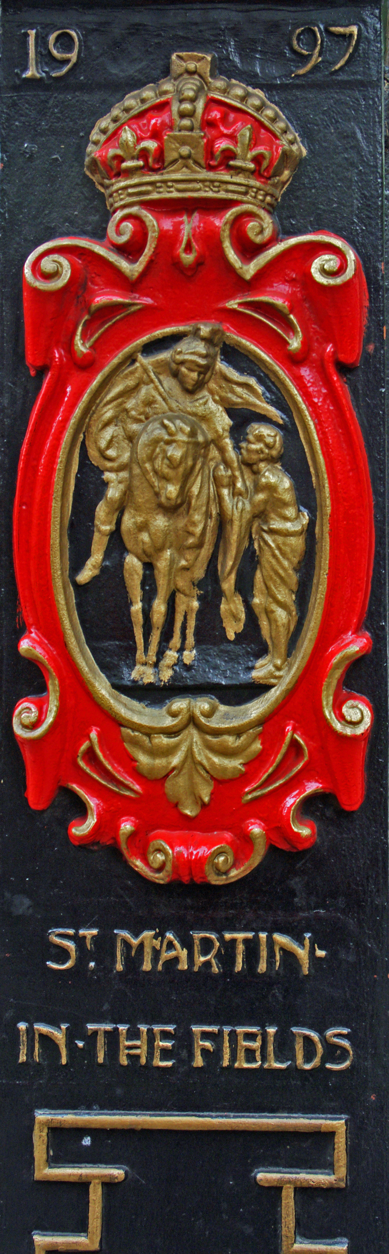 Lamp Post Detail, London, UK